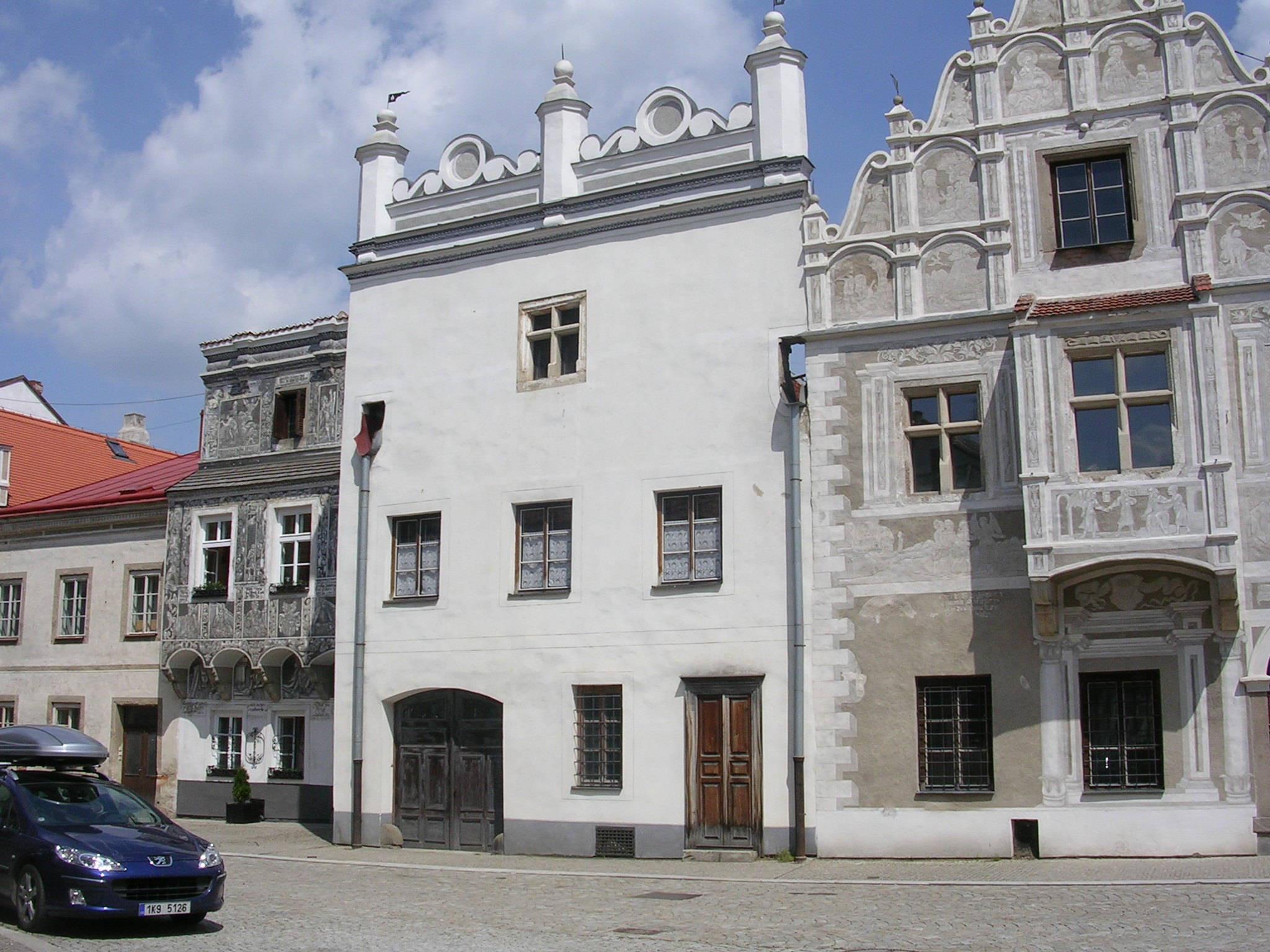 Slavonice, the Czech Republic